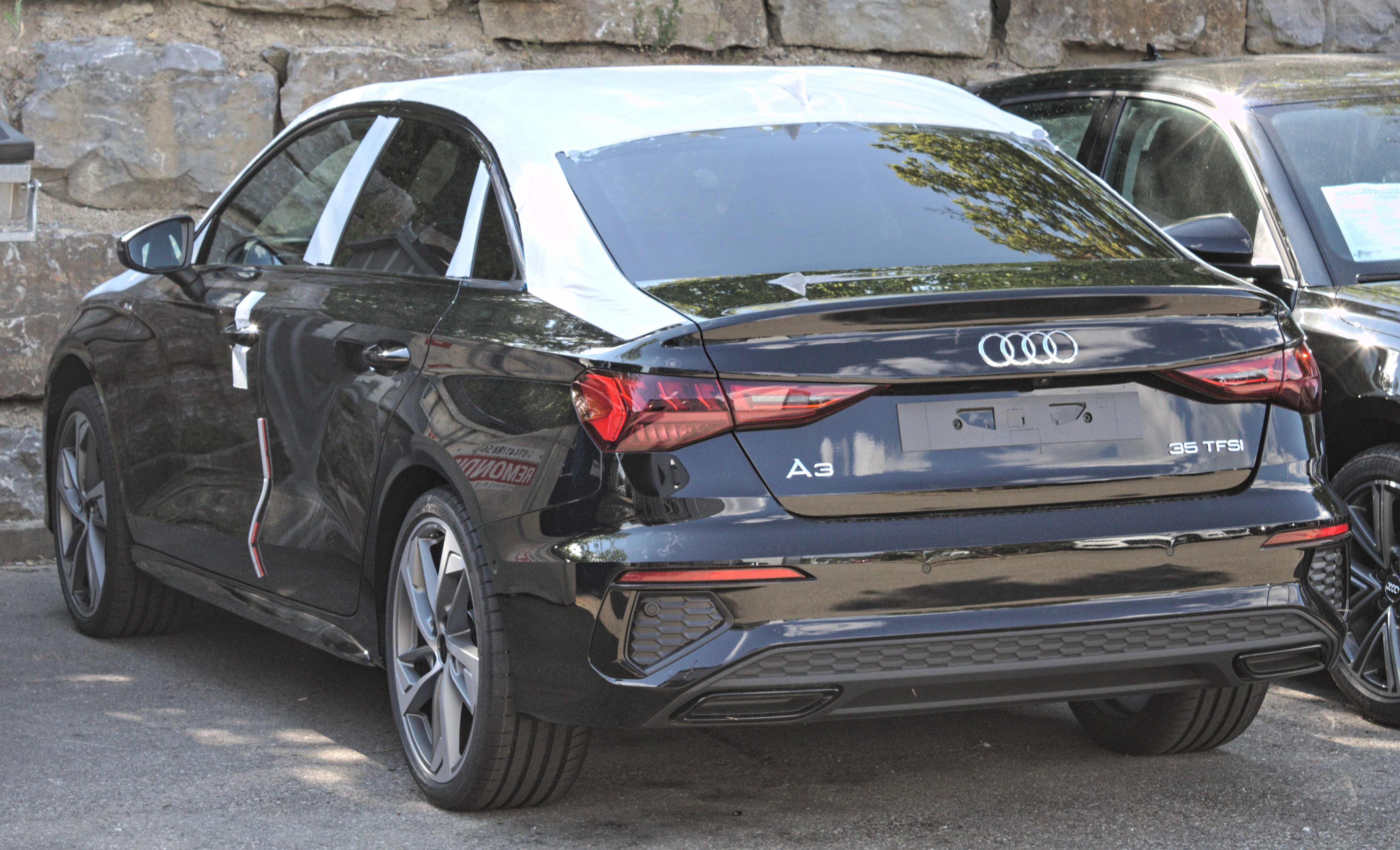 Audi_A3_8Y_Sedan in Herrenberg